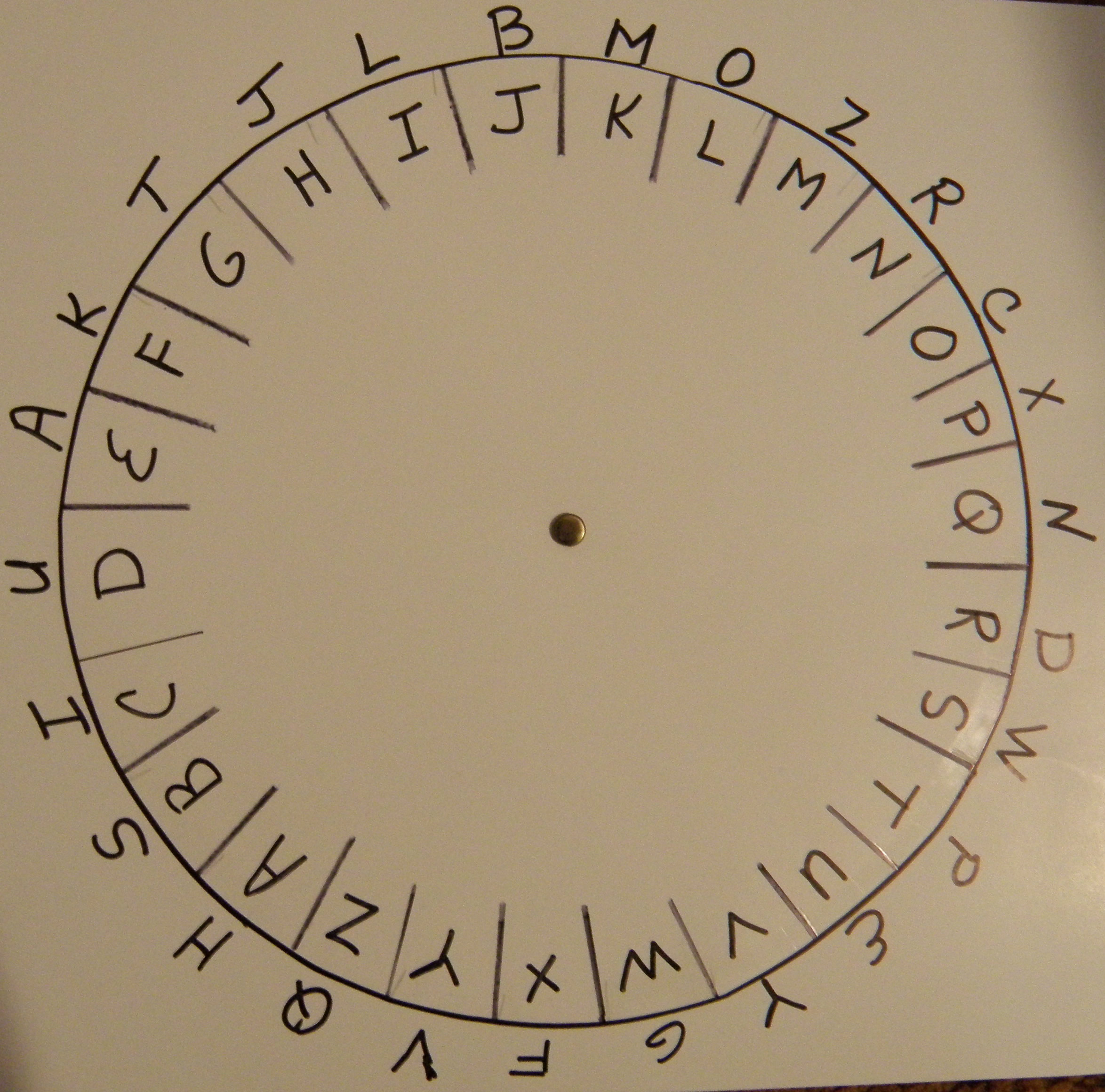 Disc created in poster board. Image is photo of creation.